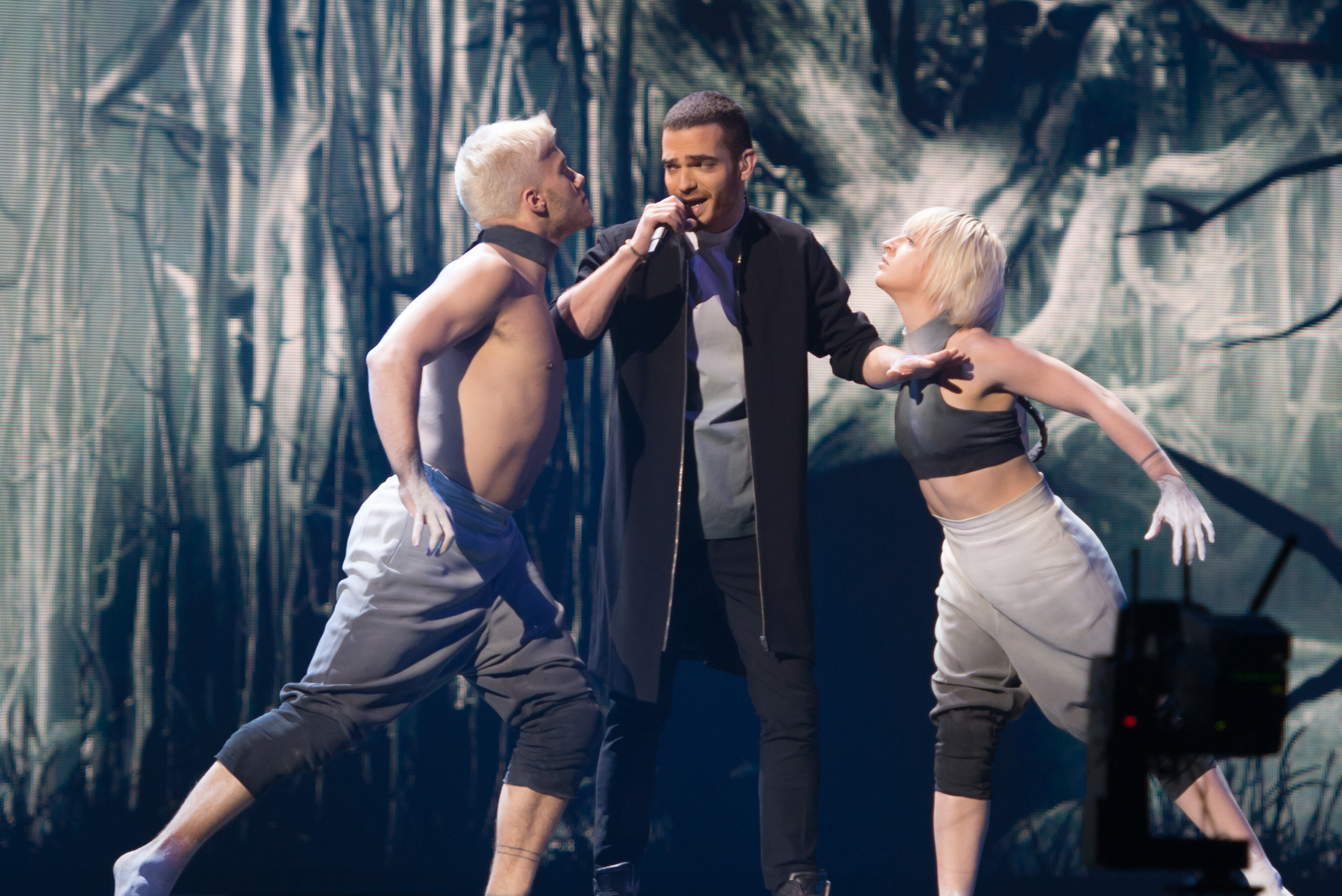 Eurovision Song Contest Vienna 2015: Elnur Huseynov